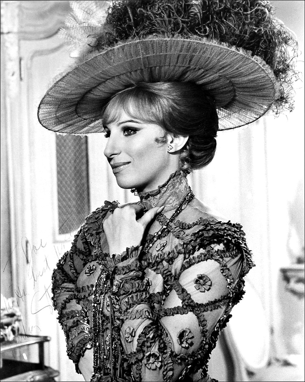 Autographed posed publicity photo of Barbra Streisand for film Hello Dolly.